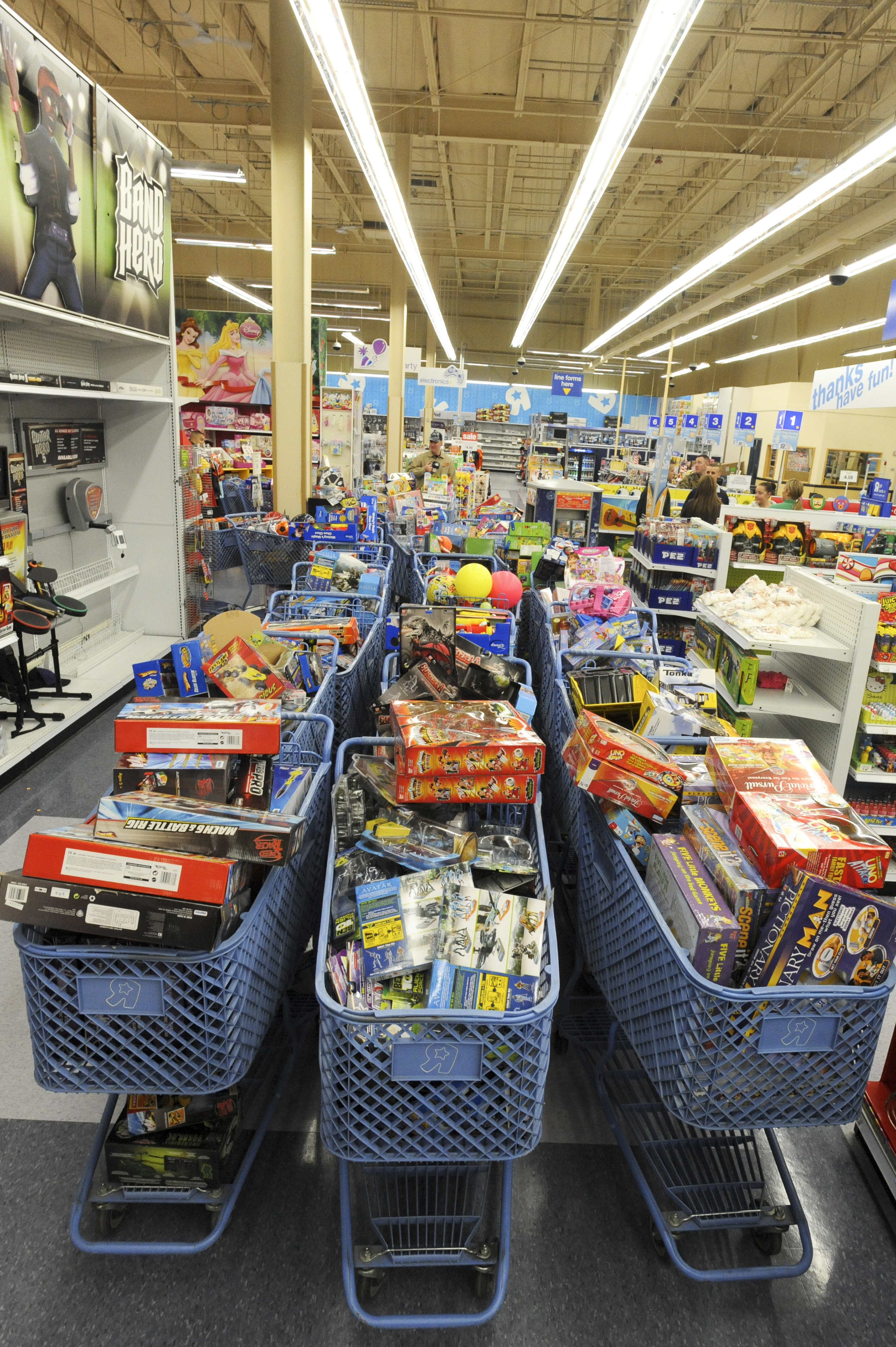 Rows of carts filled with toys for different age groups, await check out during the Toys For Tots, Toys R' Us purchase. The toys are being collected by The United States Marine Corp and will be delivered to villages across the state in remote locations.